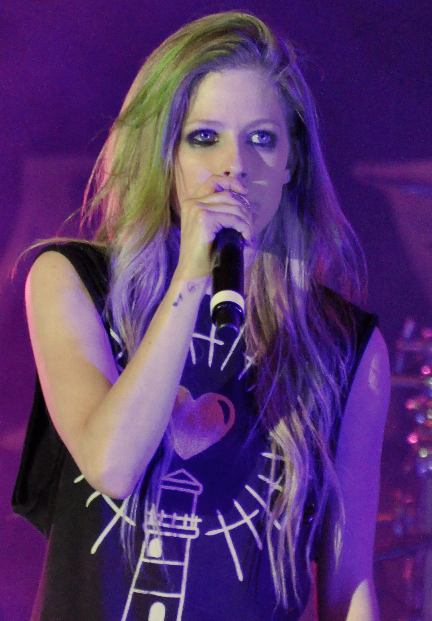 Avril Lavigne singing on stage during her Black Star Tour on May 28, 2011. The venue is the Tropicana Field stadium in St. Petersburg, Florida, during the Rays/Hess Express Saturday Concert Series. Photographed on a Nikon D90.